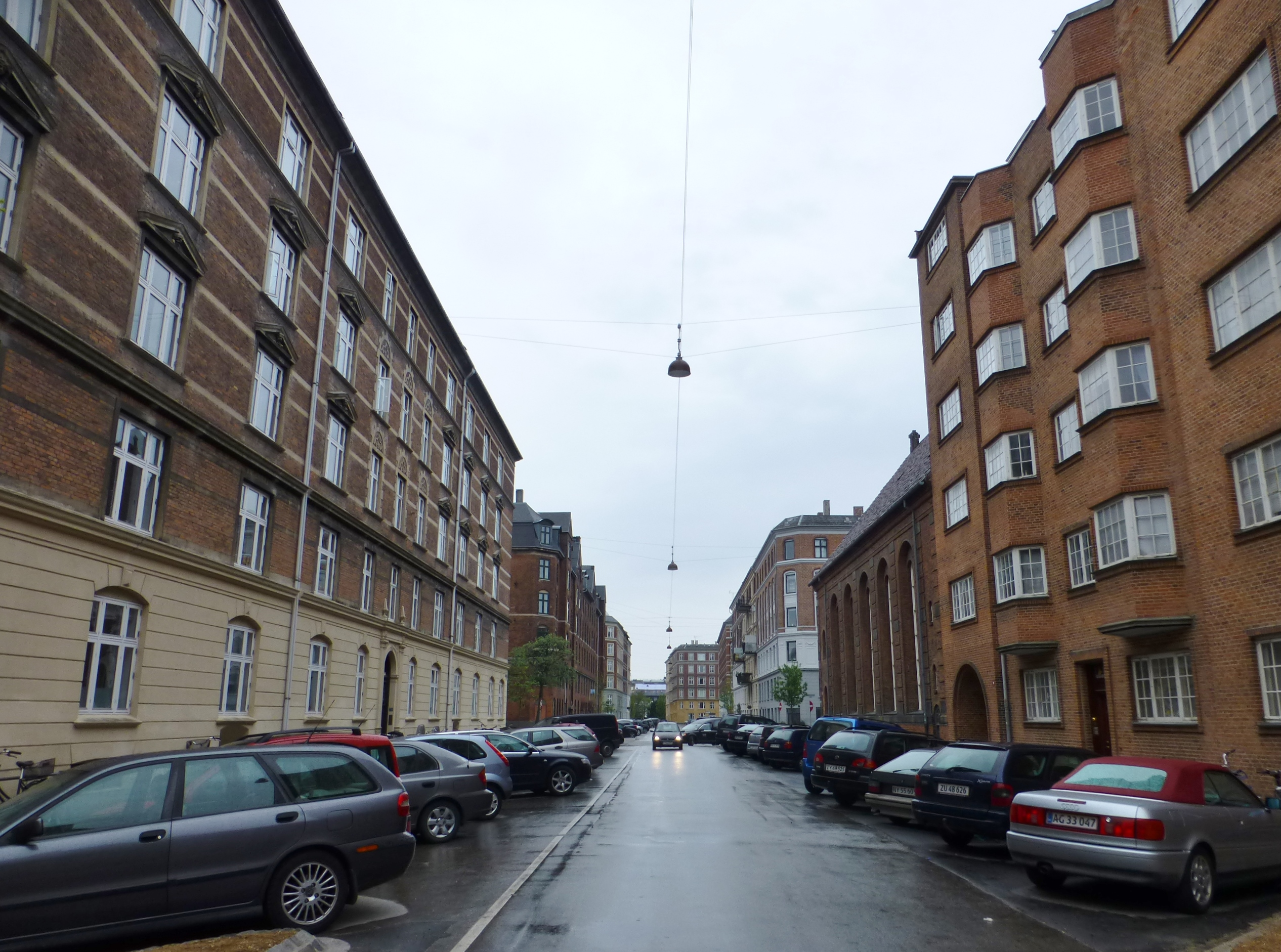 The street Fiskedamsgade in Østerbro in Copenhagen.